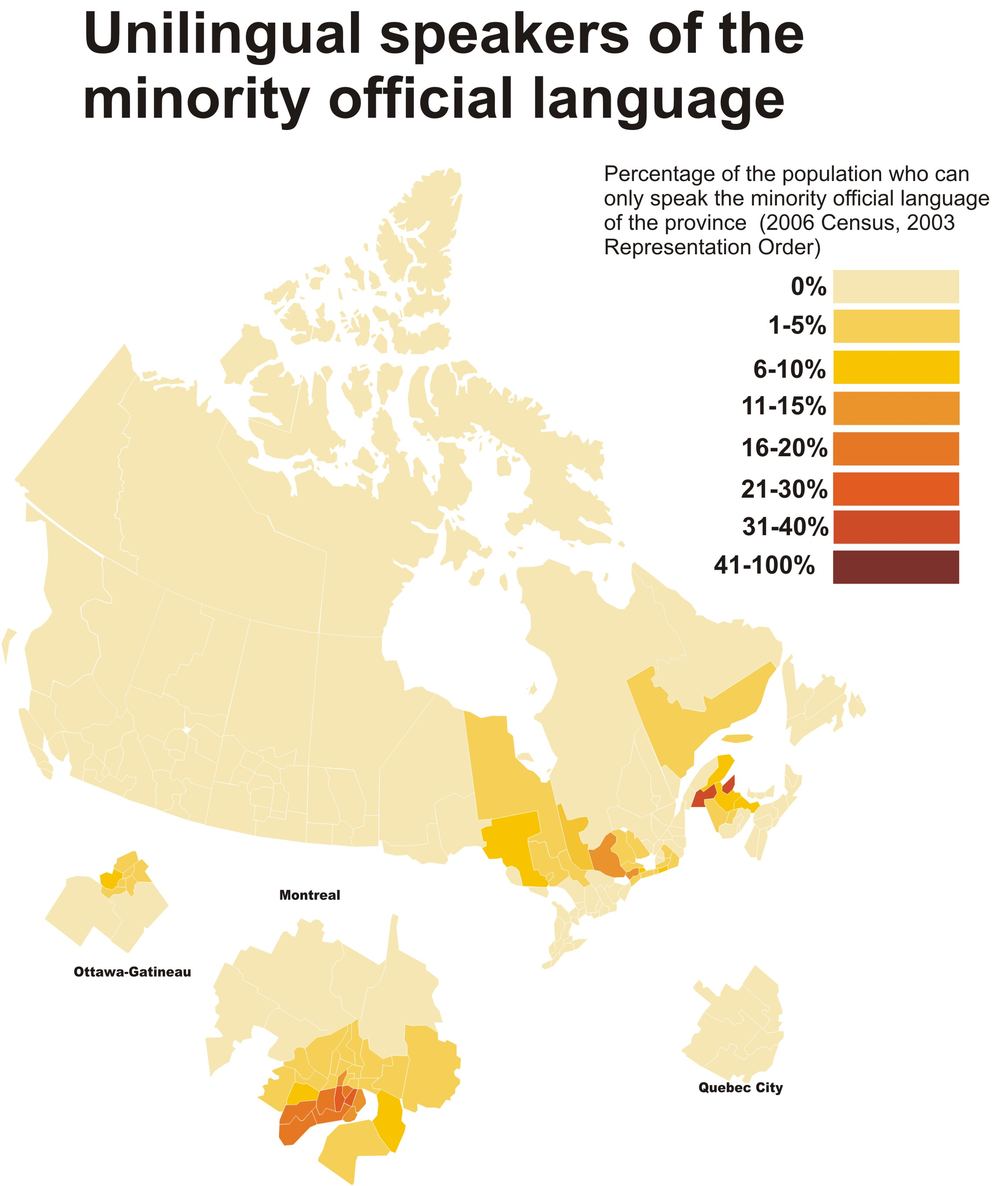 Map of Canada showing the percentage of the population which does not speak the majority official language (those who speak only English or English and a non-official language in Quebec, and those who speak only French or French and a non-official language in the rest of Canada, based on the 2006 census and 2003 representation order.